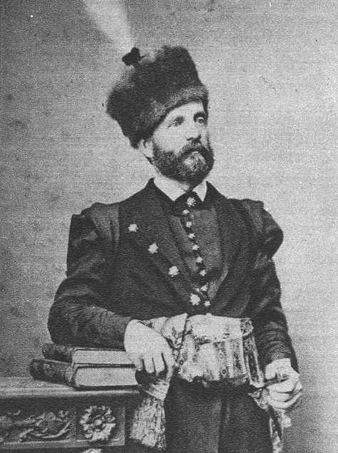 Jan Dobrzański, before 1886.